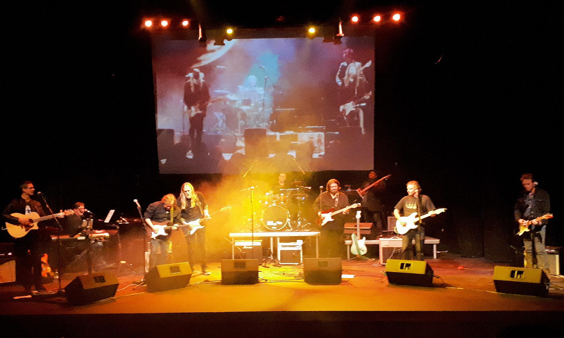 The line-up for 25 July 2018 at Atterbury Theatre, Pretoria includes Mel Botes, Piet Botha, Robin Auld, Valiant Swart, Hansie Roodt (jr) and Mauritz Lotz.